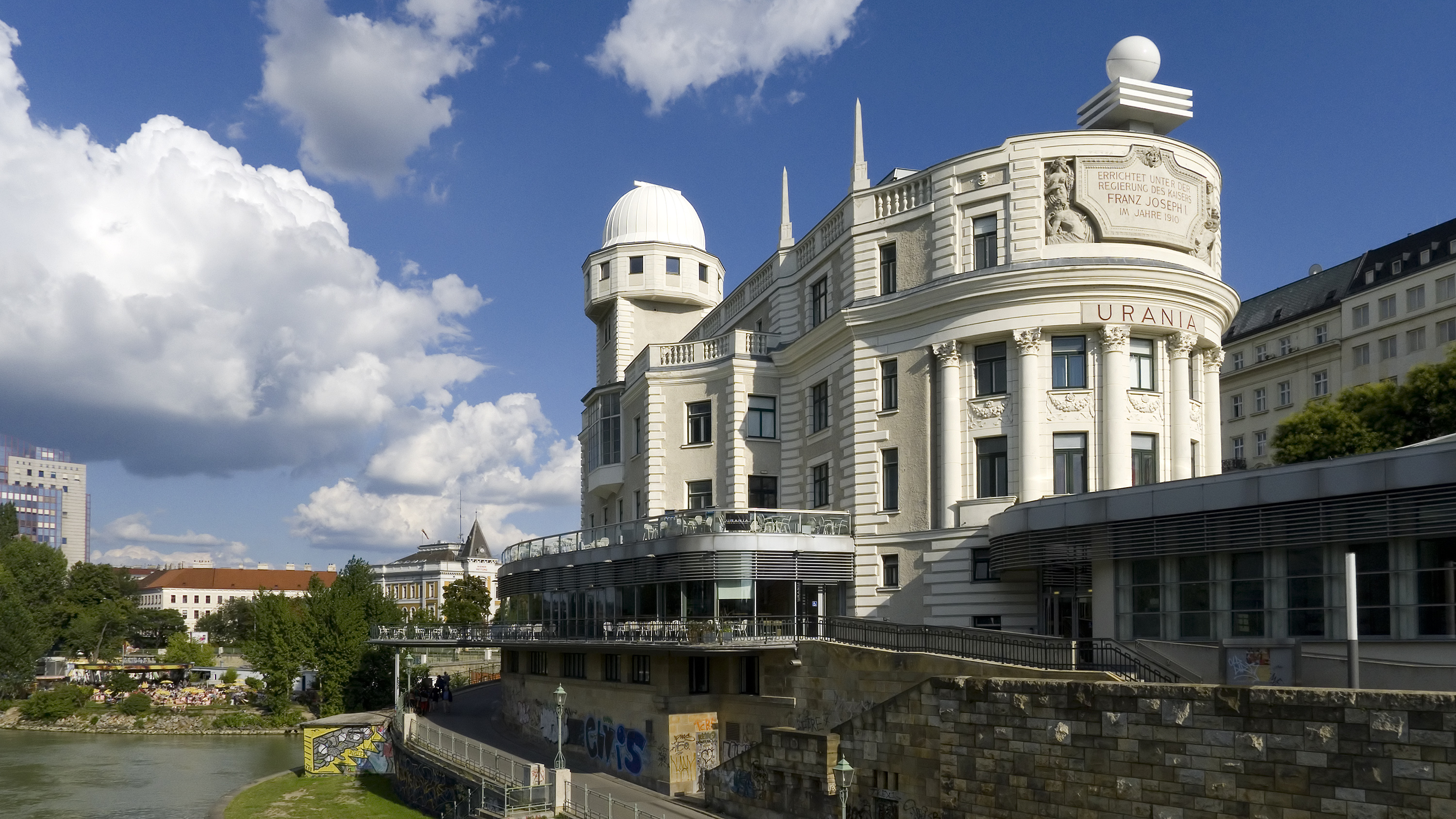 Public educational institute Urania, designed by Max Fabiani, at the confluence of the rivers Donaukanal and Wienfluss in Vienna's 1st district